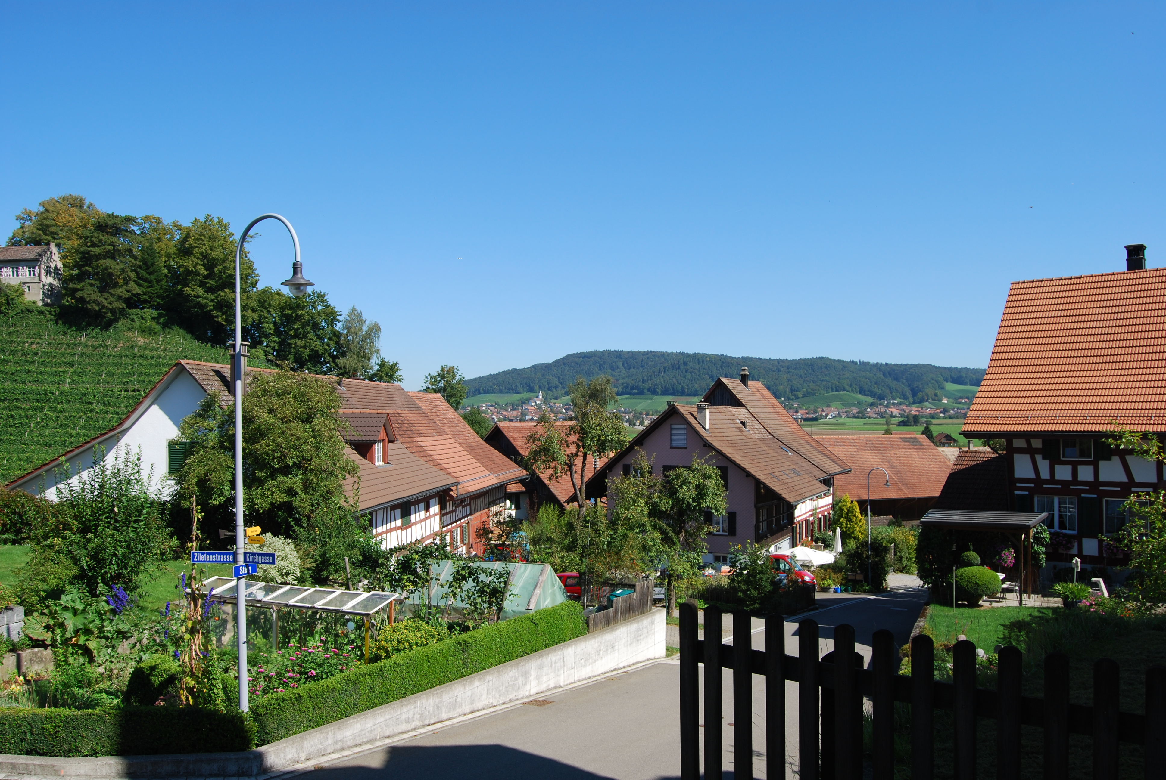 Waltalingen, canton of Zürich, Switzerland